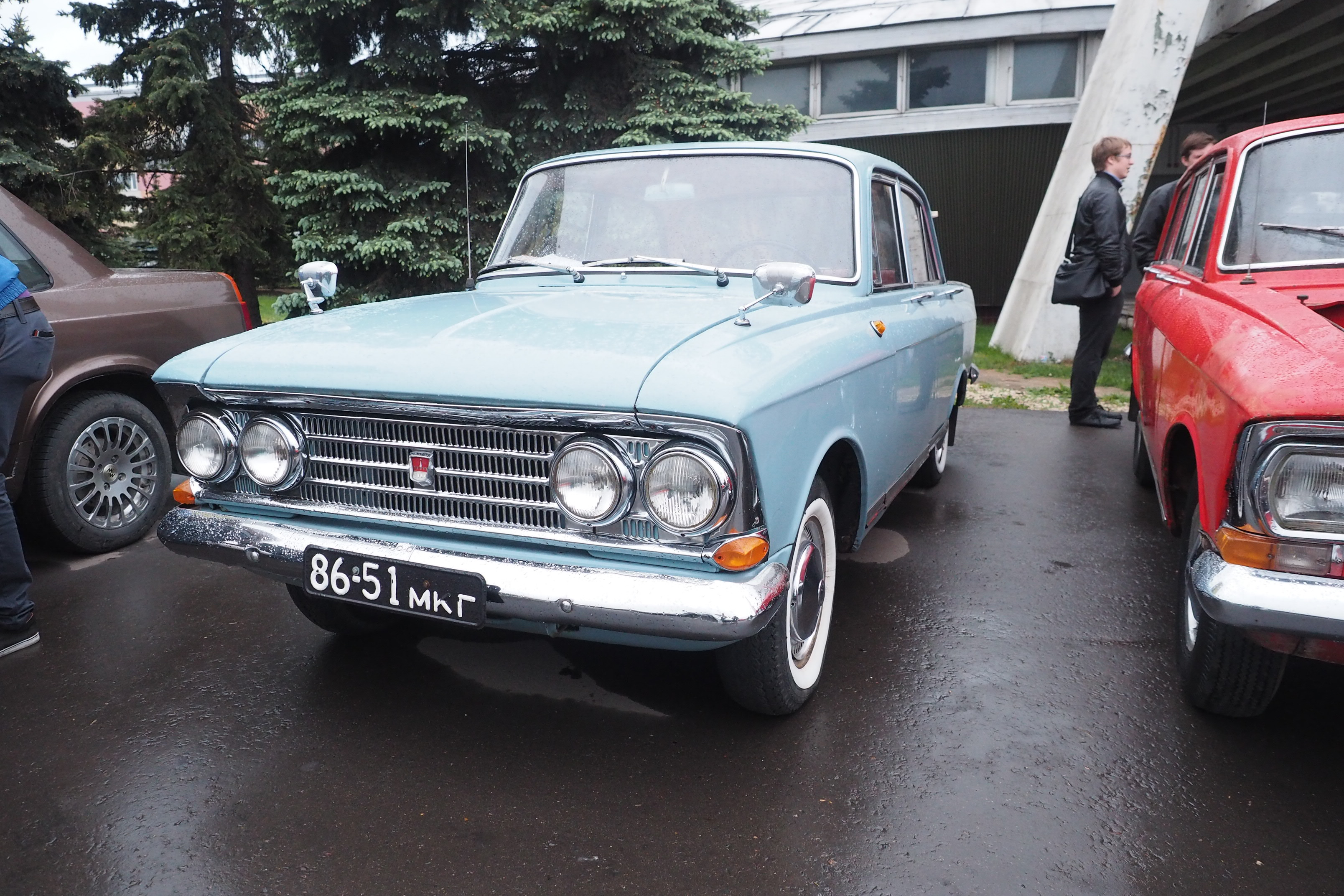 Party of Moskvitch owners, Moscow, 2016